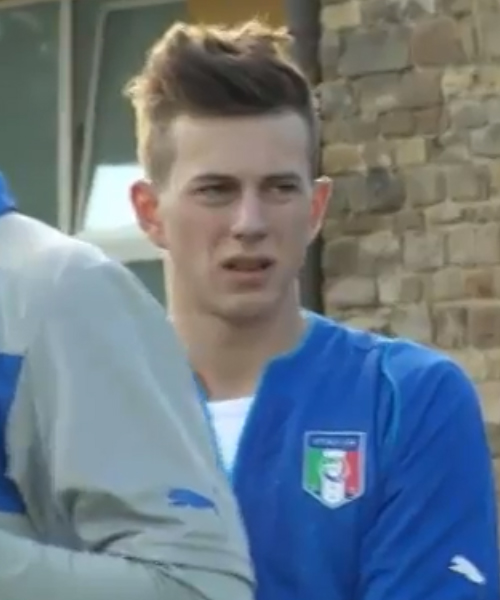 Federico Bernardeschi with U-21 Italy national football team shirt